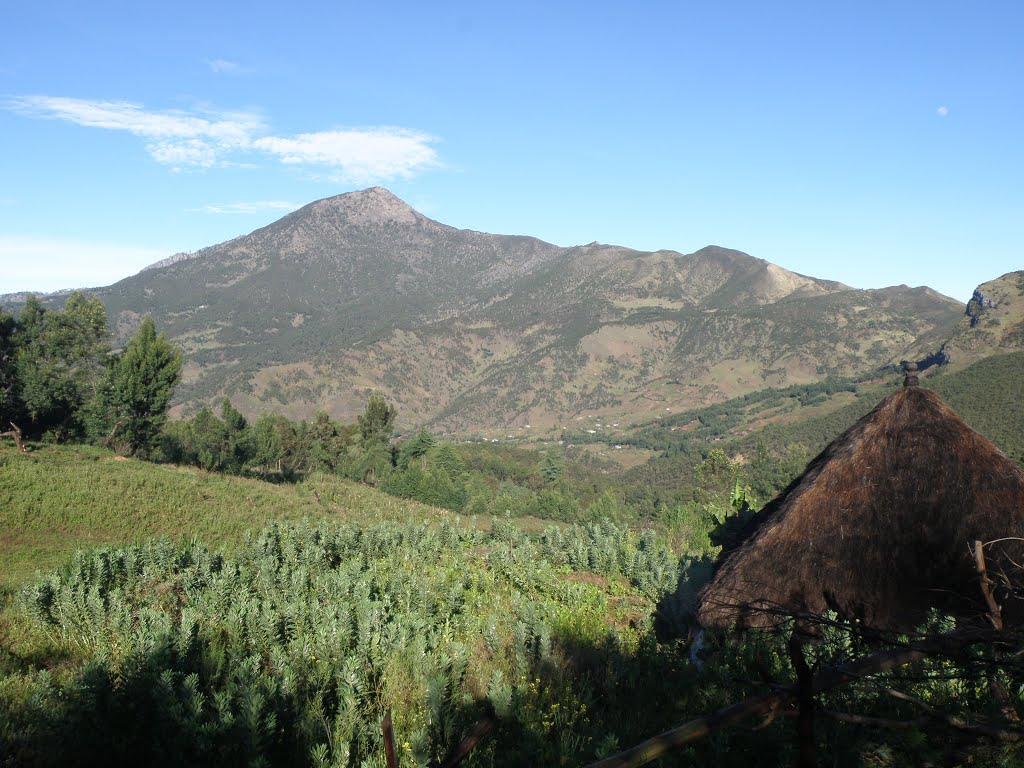 View to Mt Tatamailau, Ainaro on a clear day